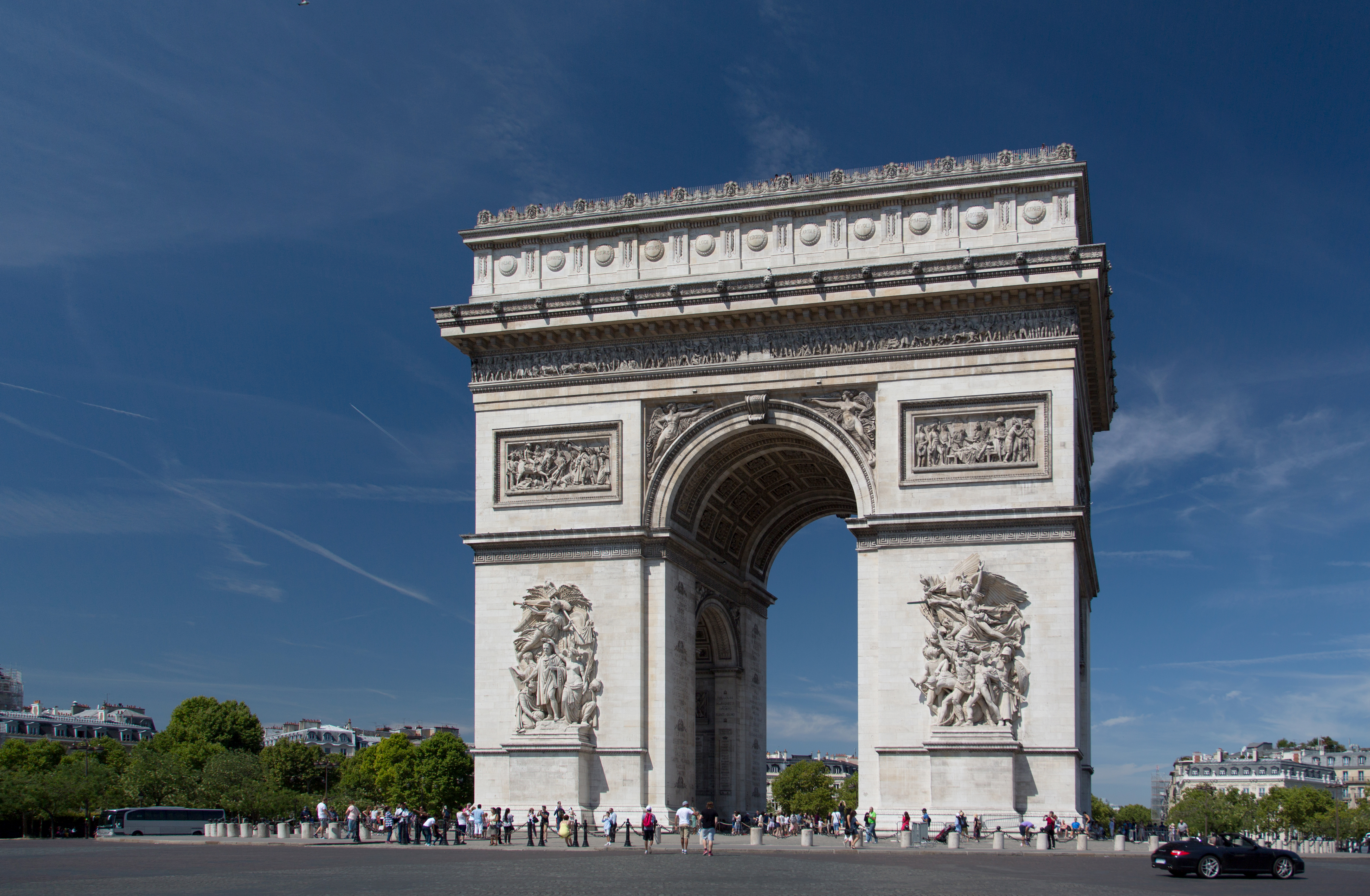 Arc de Triomphe de l'Étoile, one of the most famous monuments in Paris. It stands in the centre of the Place Charles de Gaulle, at the western end of the Champs-Élysées.